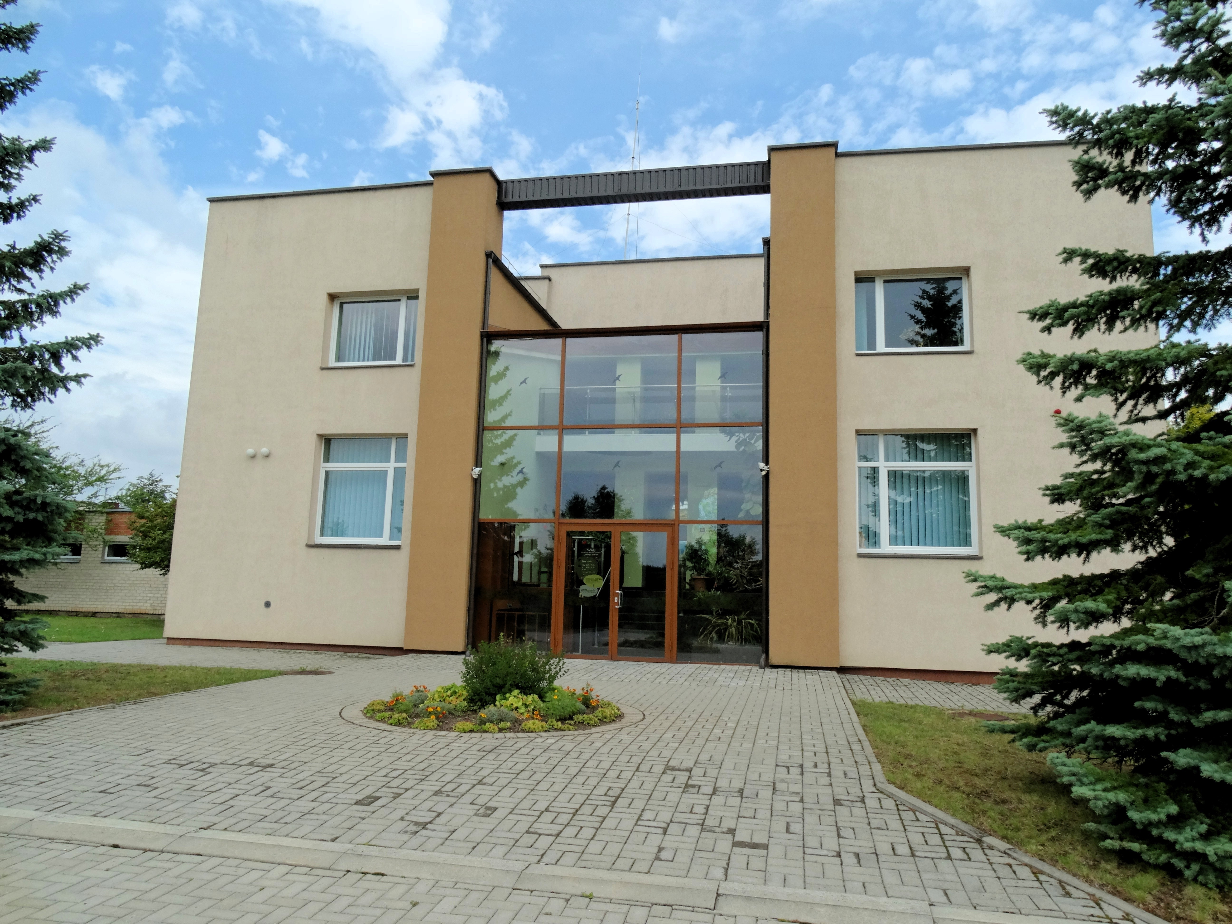 Centre of visitors, Kamanos nature reserve, Akmenė II, Lithuania